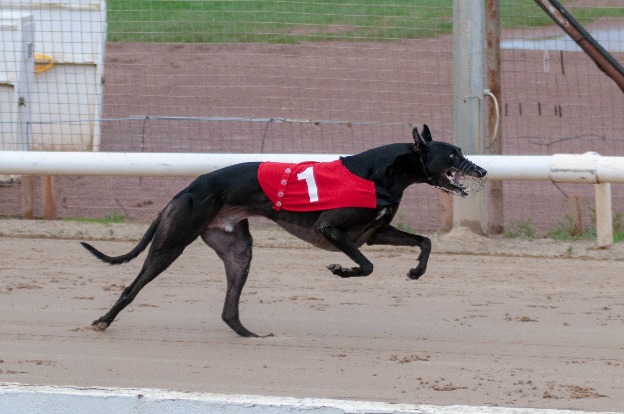 Dorotas Wildcat, the English Greyhound Derby champion pictured in 2018